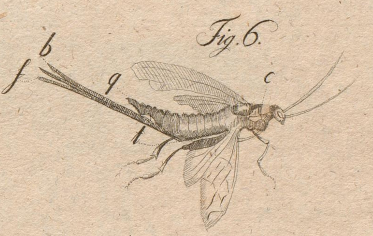 Xeris spectrum from Abhandlungen zur Geschichte der Insekten, where it was described as "Ein großer schwarzer Ichneumon mit suchsrothen Füssen"